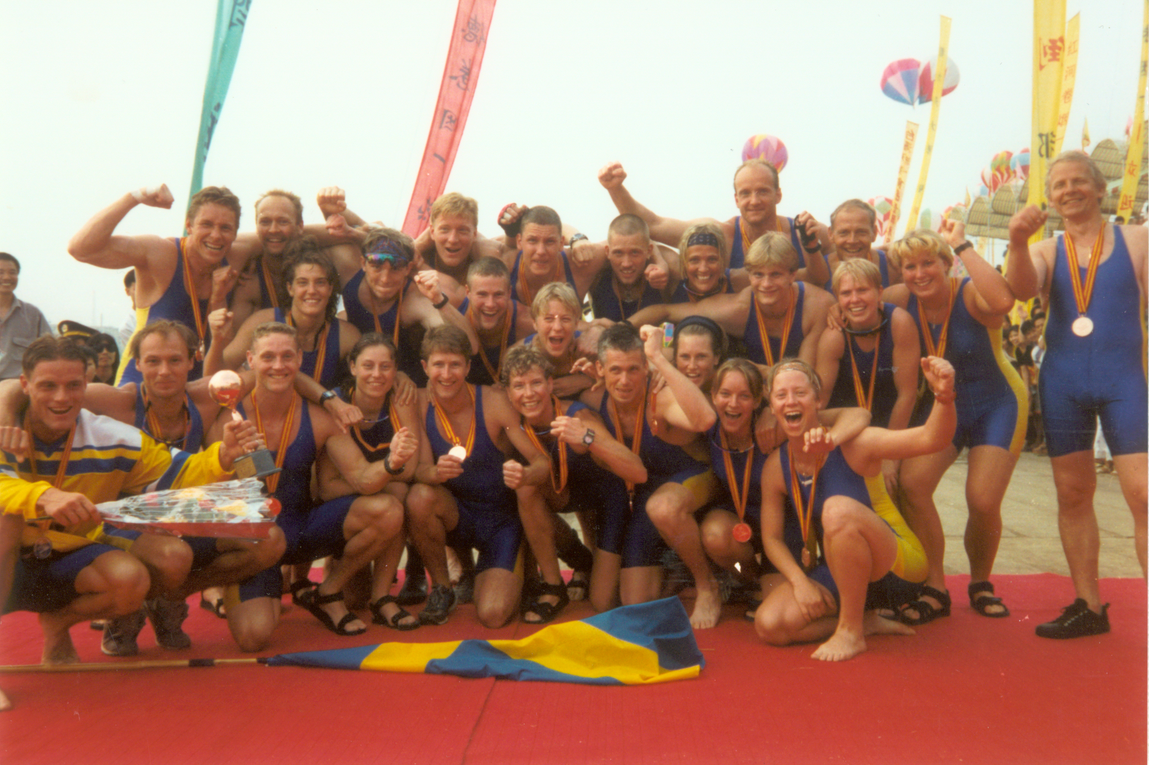 (Swedish National Team at the IDBF World Dragon Boat Championships in Yue Yang, China 1995)